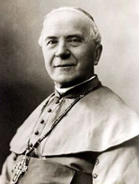 Joseph Sebastian Pelczar